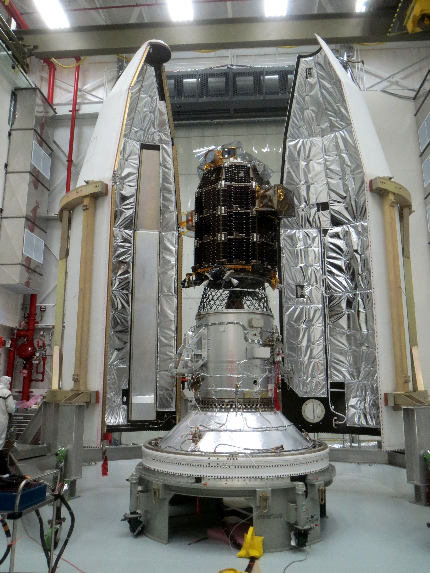 Engineers from NASA's Ames Research Center have successfully completed launch preparation activities for NASA's Lunar Atmosphere and Dust Environment Explorer (LADEE) observatory, which has been encapsulated into the nose-cone of the Minotaur V rocket at NASA's Wallops Flight Facility.